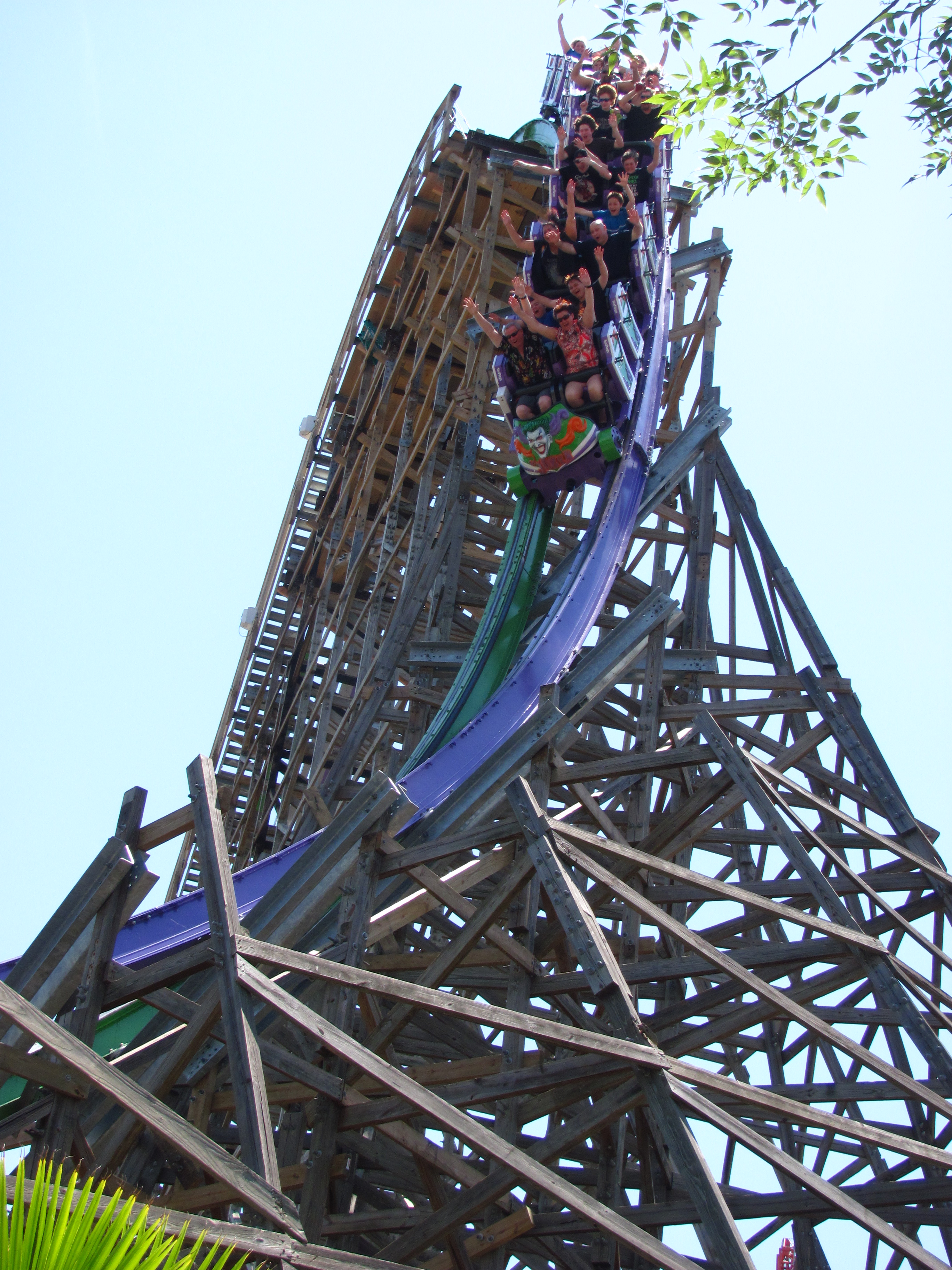 The Joker